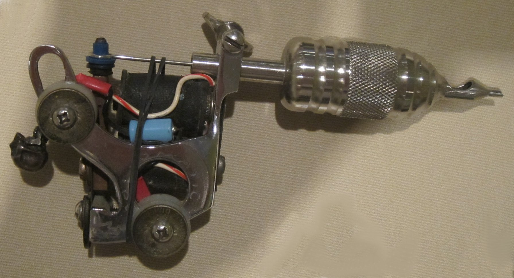 "Rollomatic" liner, named after Rollo Banks (Mike Malone, 1942-2007)